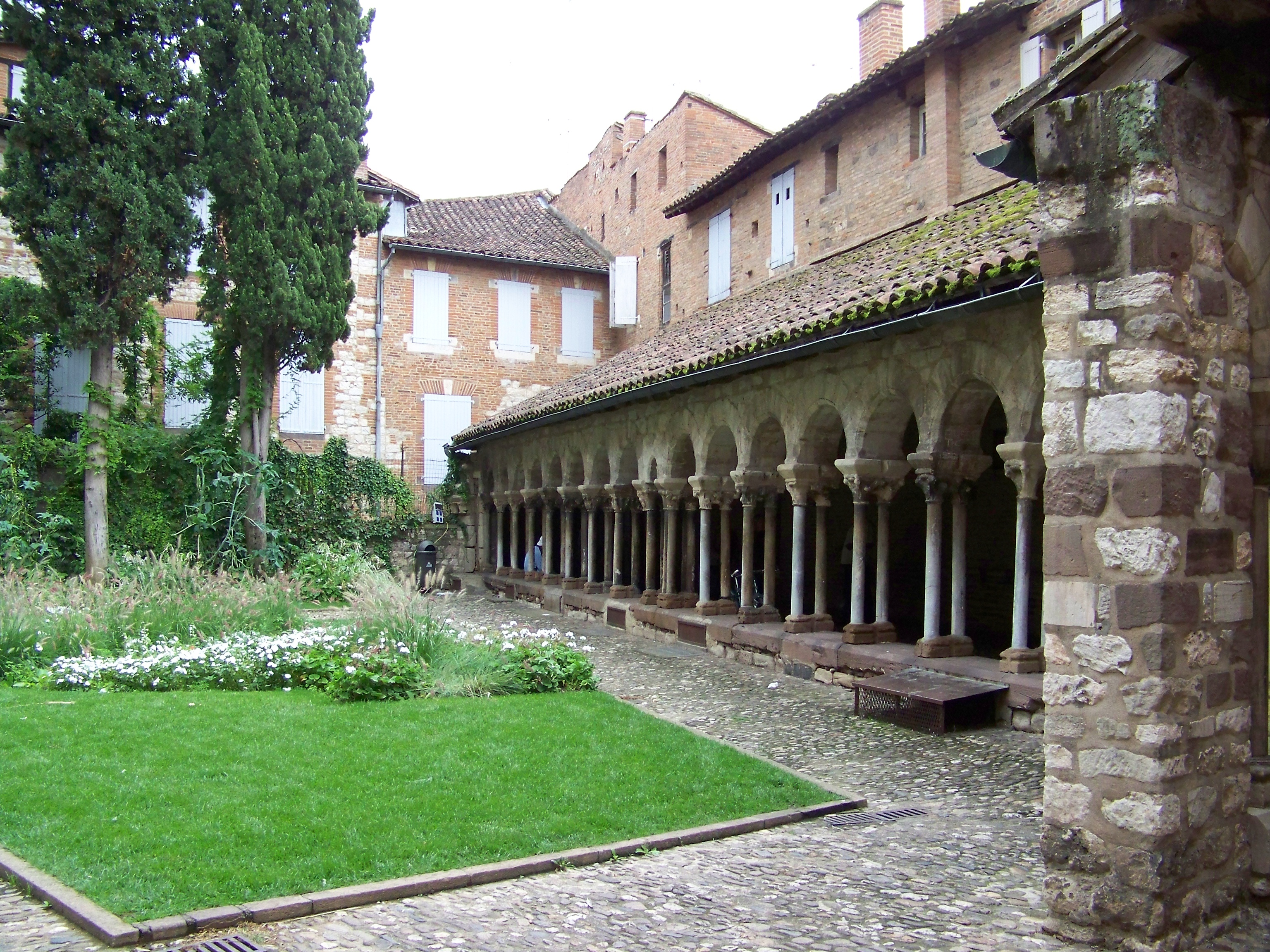 Cloister of the collegiate church Saint-Salvy in Albi